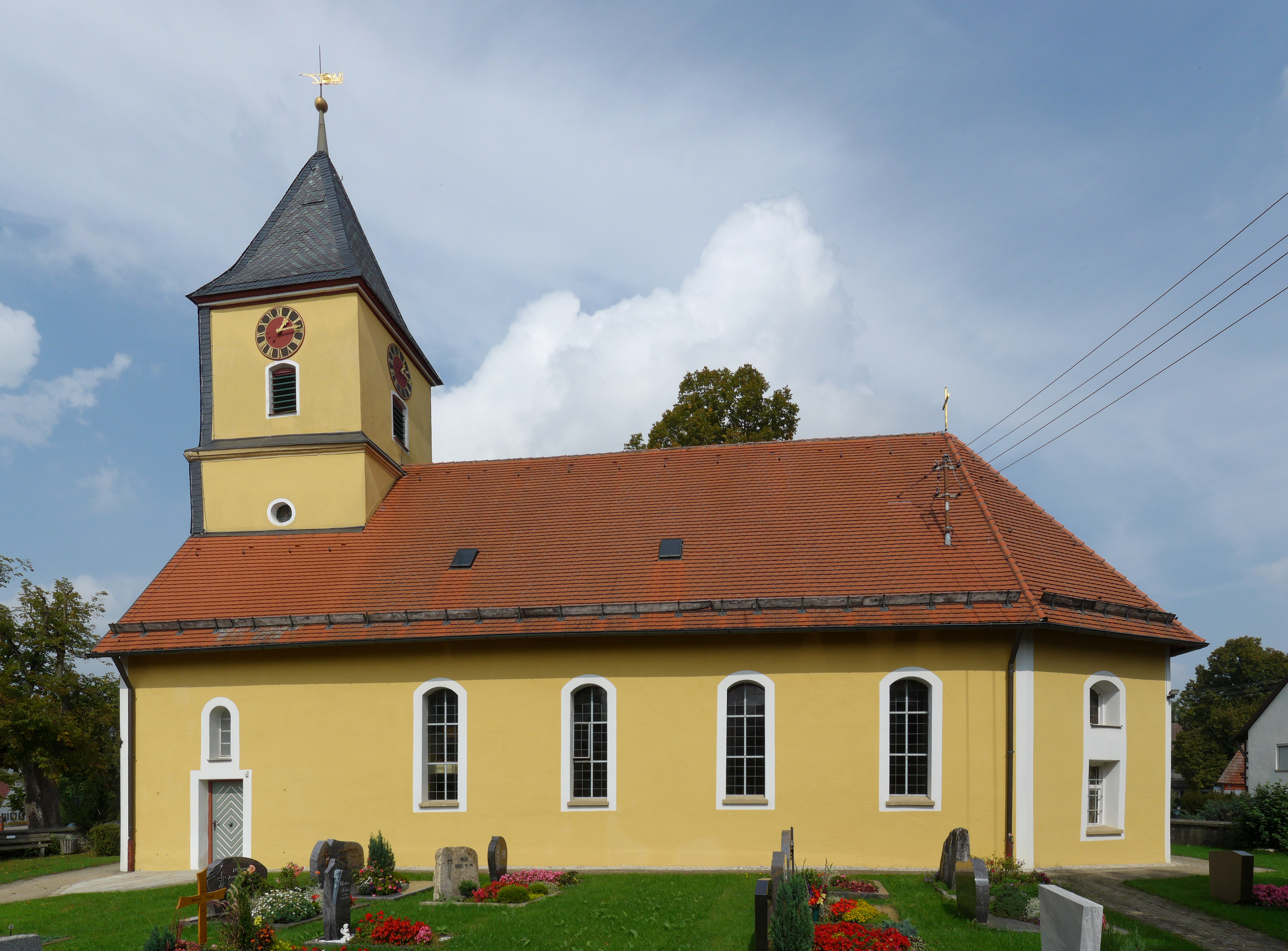 St Ulrich church in Steinenkirch